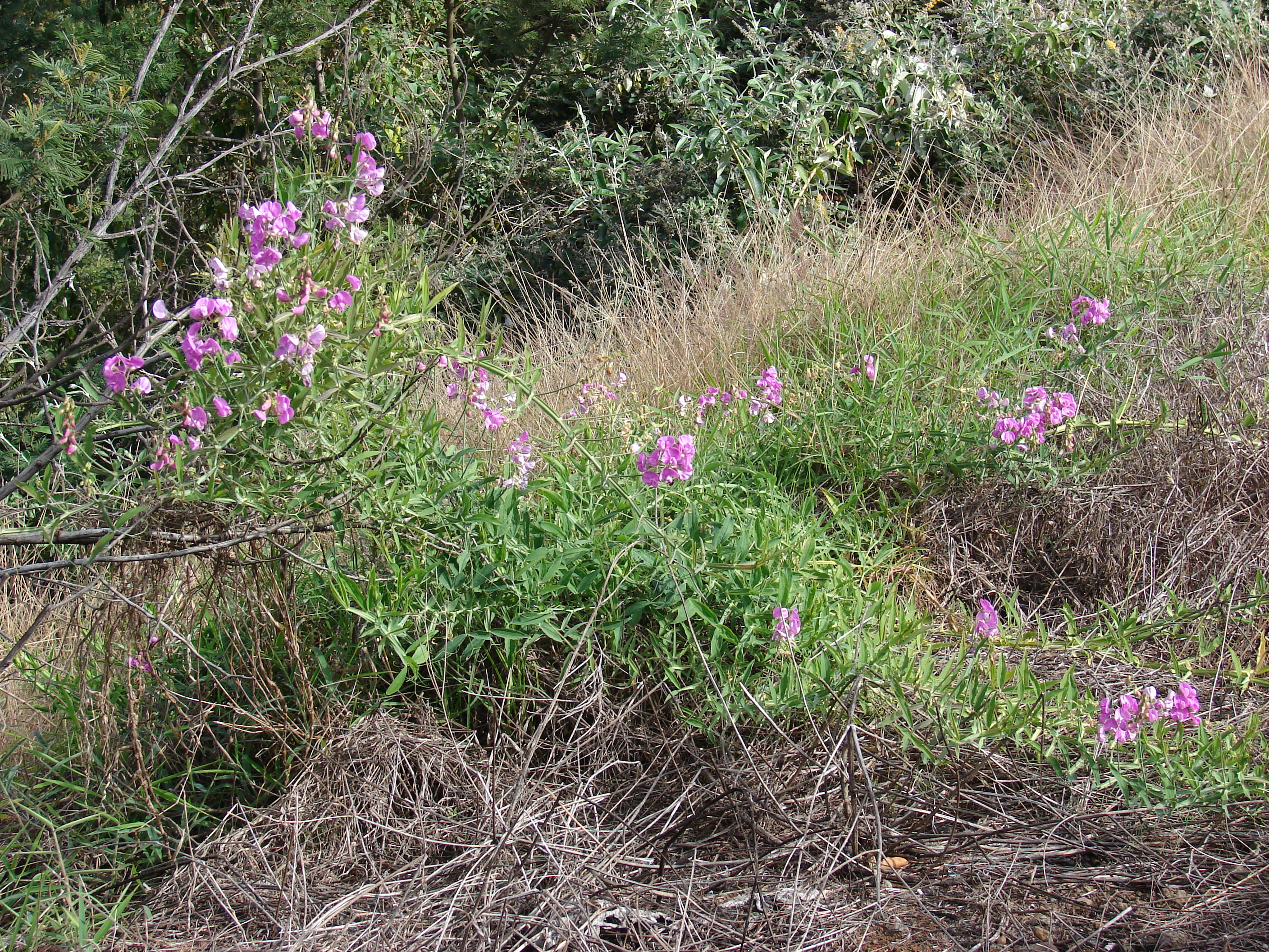 Lathyrus latifolius (flowering habit). Location: Maui, Kula